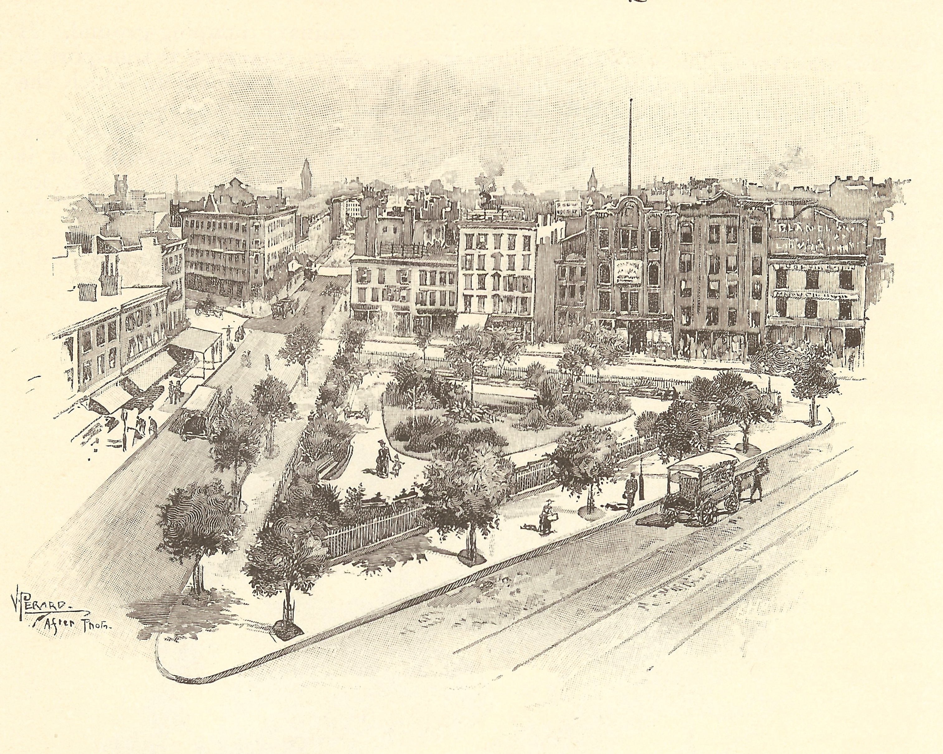 This rendering of Jackson Square Park accompanies an article by Samuel Parsons called "The evolution of a city square" published by Scribners Magazine July-December 1892. NOTE FROM BILL JEFFWAY: THE IMAGE IN THE MAGAZINE HAS THE INCORRECT TITLE "ABINGDON SQUARE." It is mistakenly named in the original source.